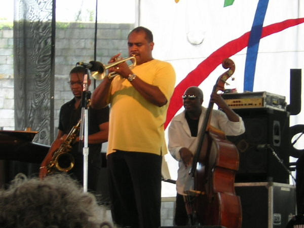 Picture of Ravi Coltrane, Terell Stafford and Charnett Moffett performing at the Newport Jazz Festival in Newport, Rhode Island, on August 13, 2005.